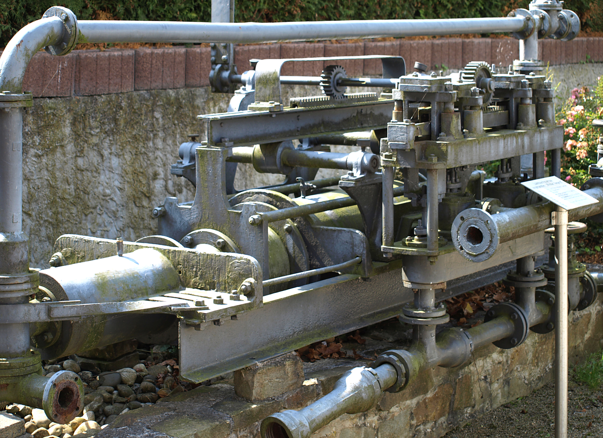 Hydraulic ram, horizontal model